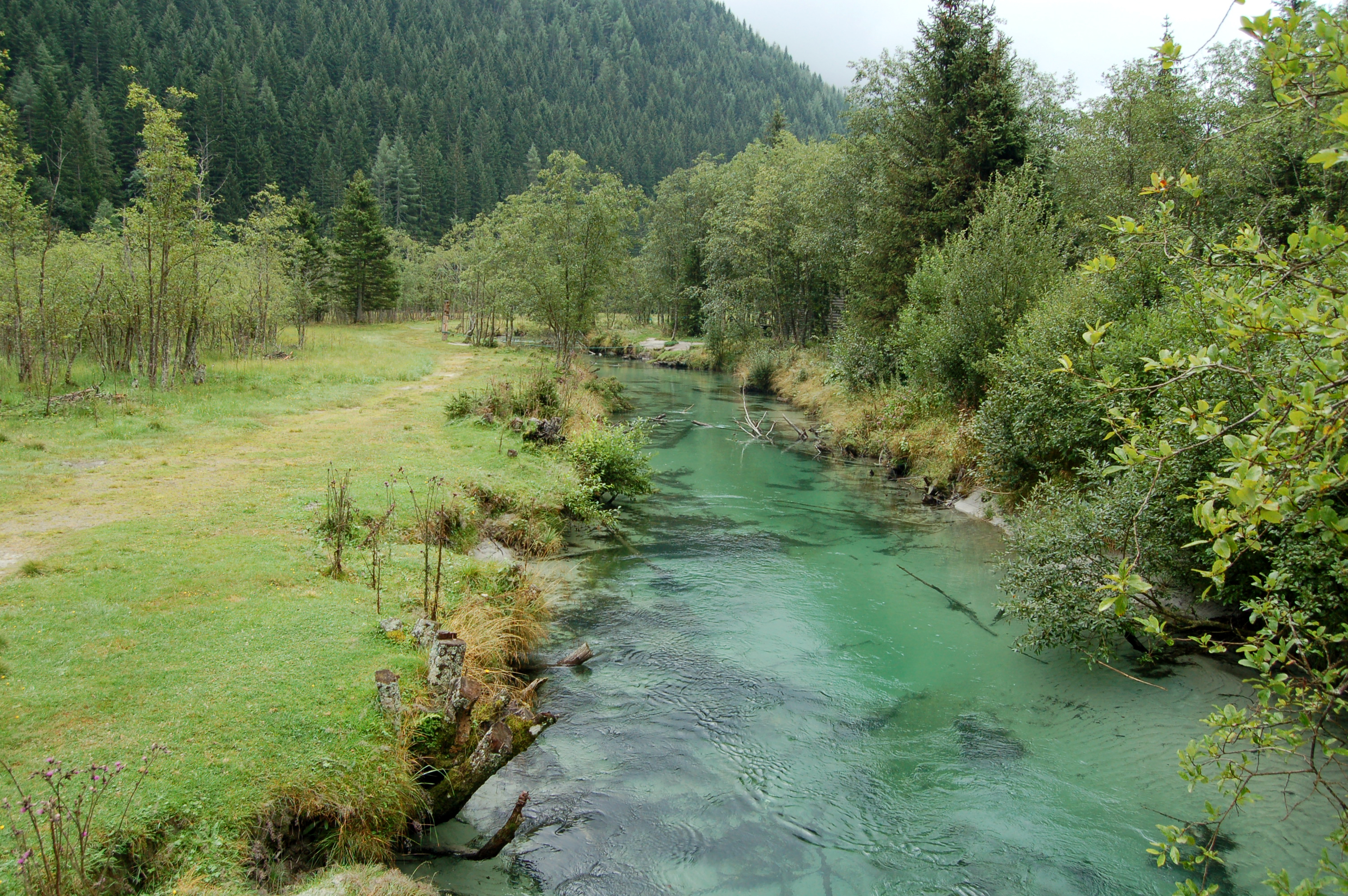 Seebach, a small river coming from Lassacher Winkel and running through Mallnitz, Carinthia.